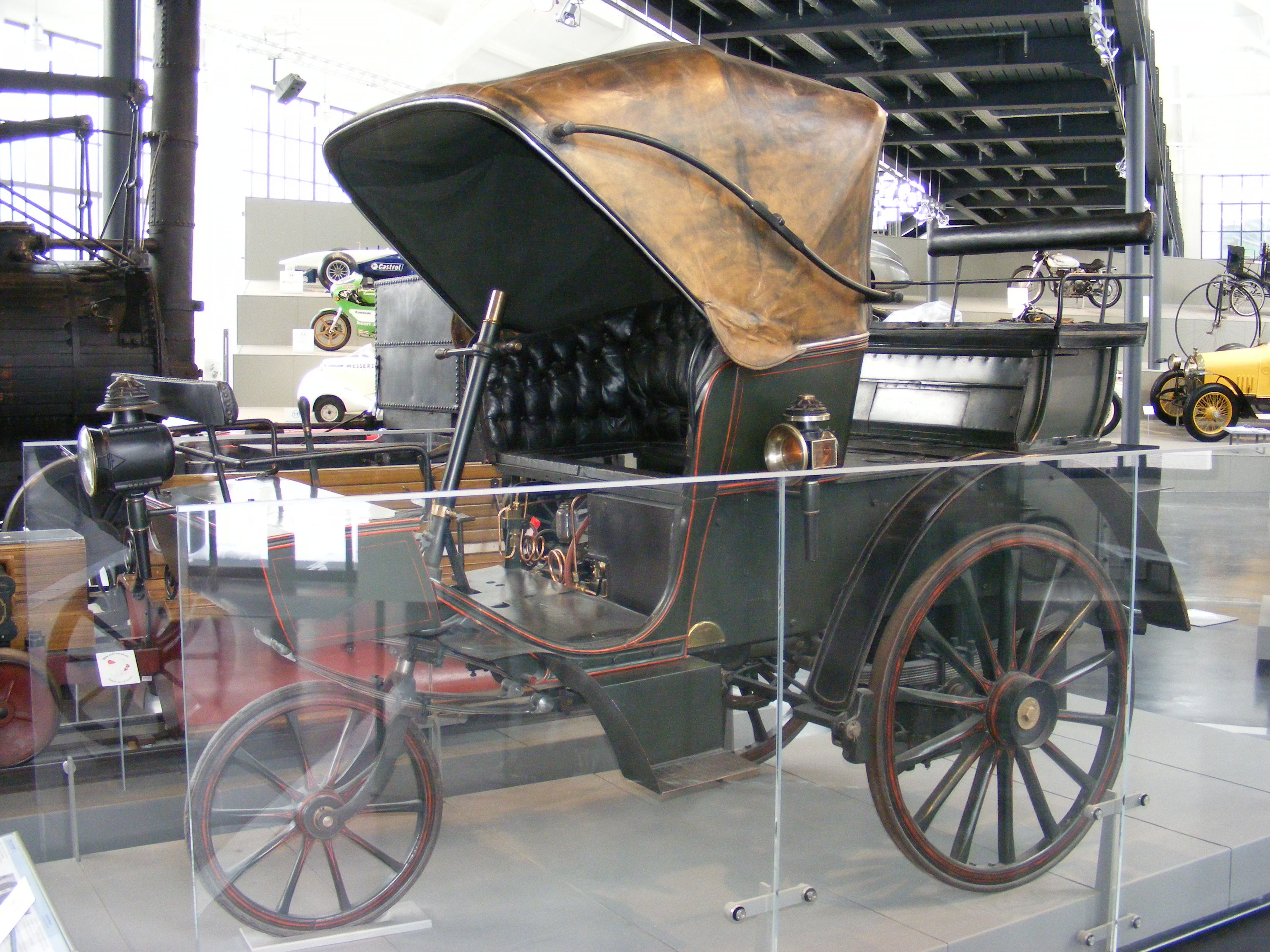 A 1891 Serpollet steamer — Deutsches Museum Verkehrszentrum Munich, Germany.